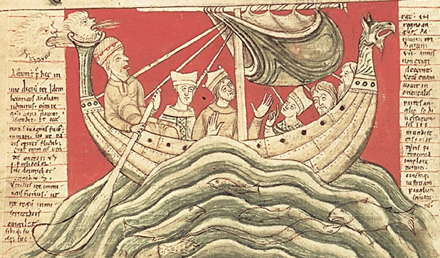 Henry I returning to England in a hulk (Chronicle of John of Worcester, c.1118-1140, Corpus Christi College, Oxford Ms 157, f.383)